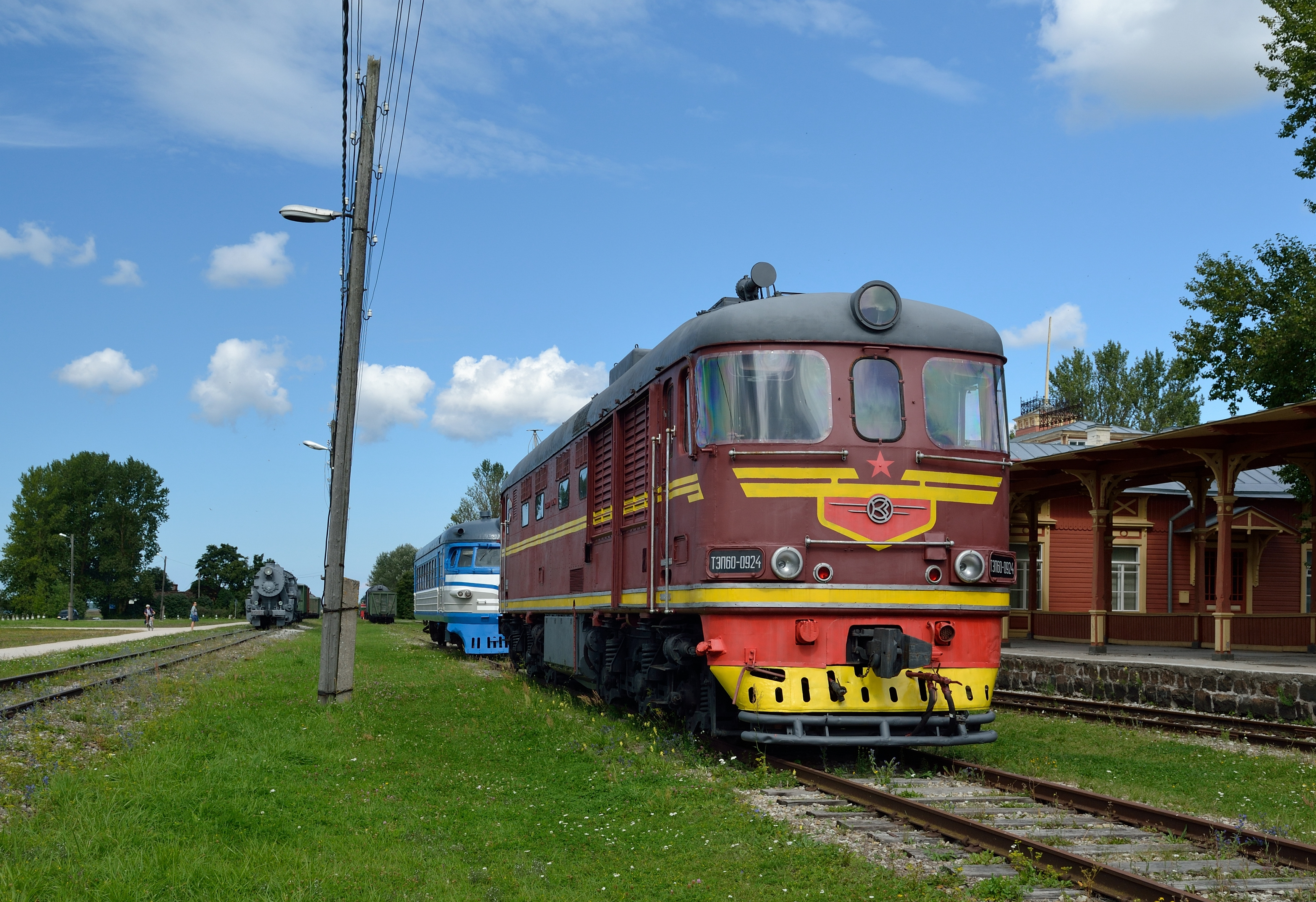 The motor engine TEP60-0924 in Haapsalu, built in 1980 in Kolomna